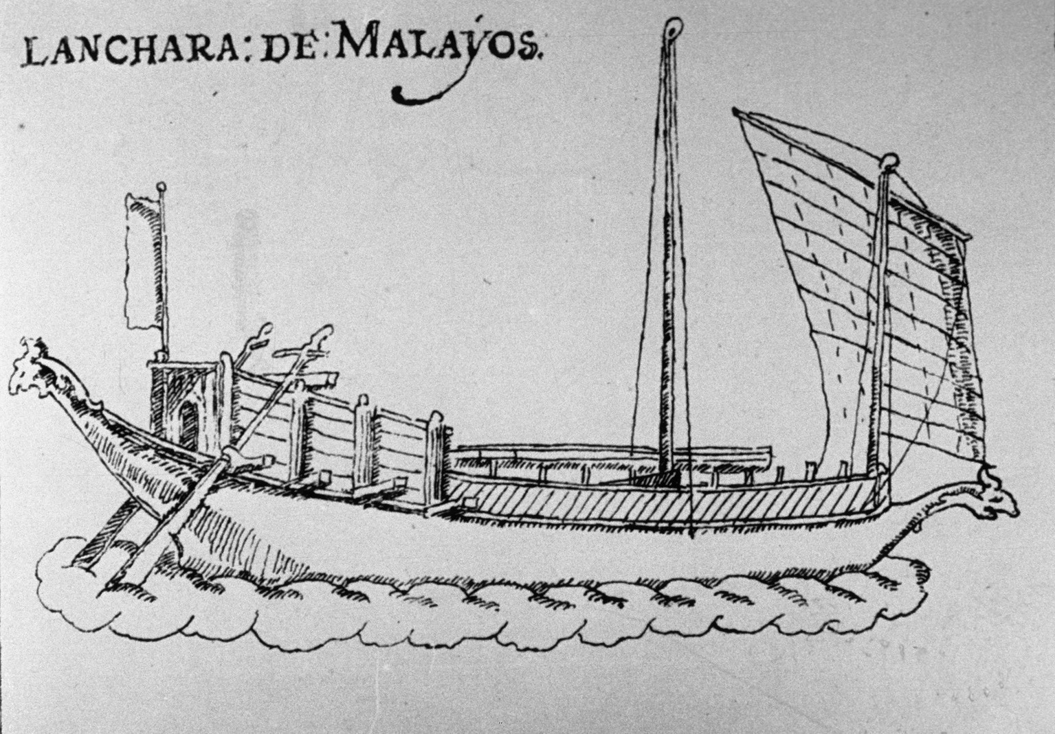 A Malay lanchara / lancaran as drawn by Manuel Godinho de Erédia.